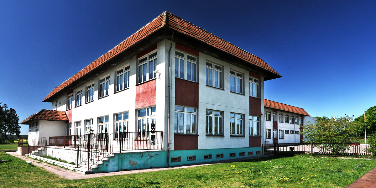 primary school in the village of Smardzewo, Lubusz Voivodeship, Poland